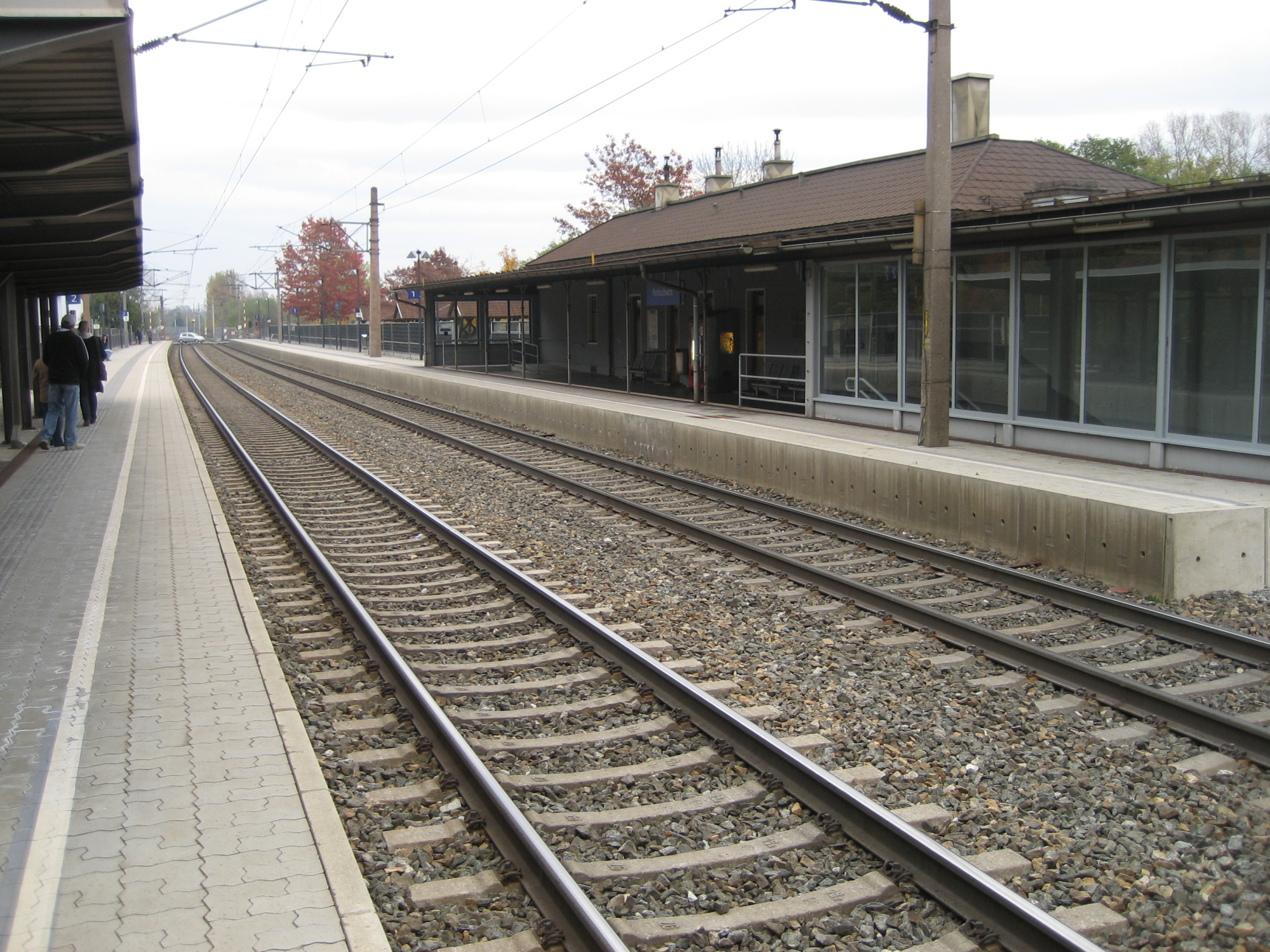 Pottschach train station in Lower Austria